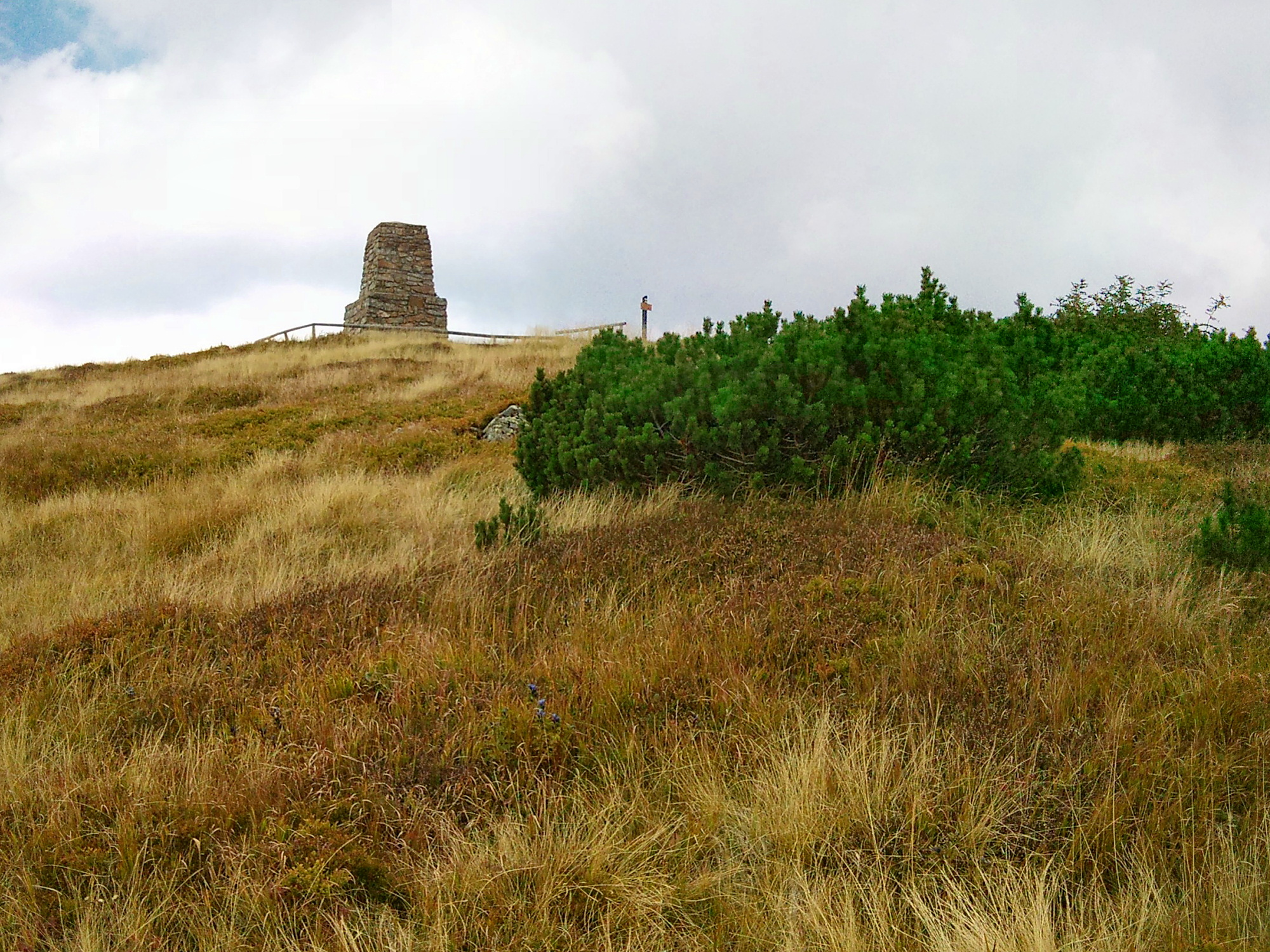 Monument of Bohumil Hanč and Václav Vrbata in the Krkonoše Mountains